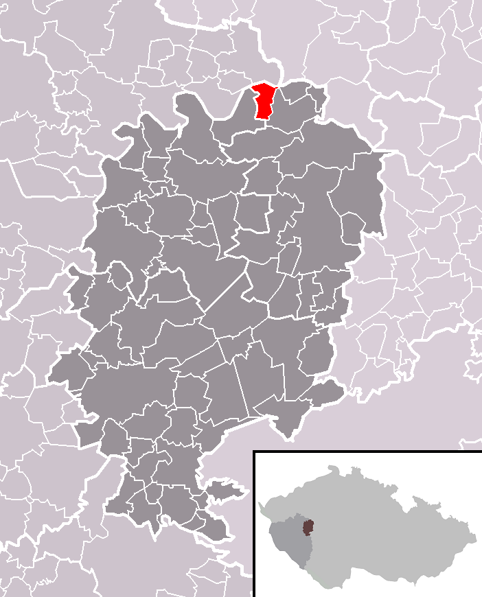 Location of Zvíkovec market town within Rokycany District and identical administrative area of Rokycany as a Municipality with Extended Competence.